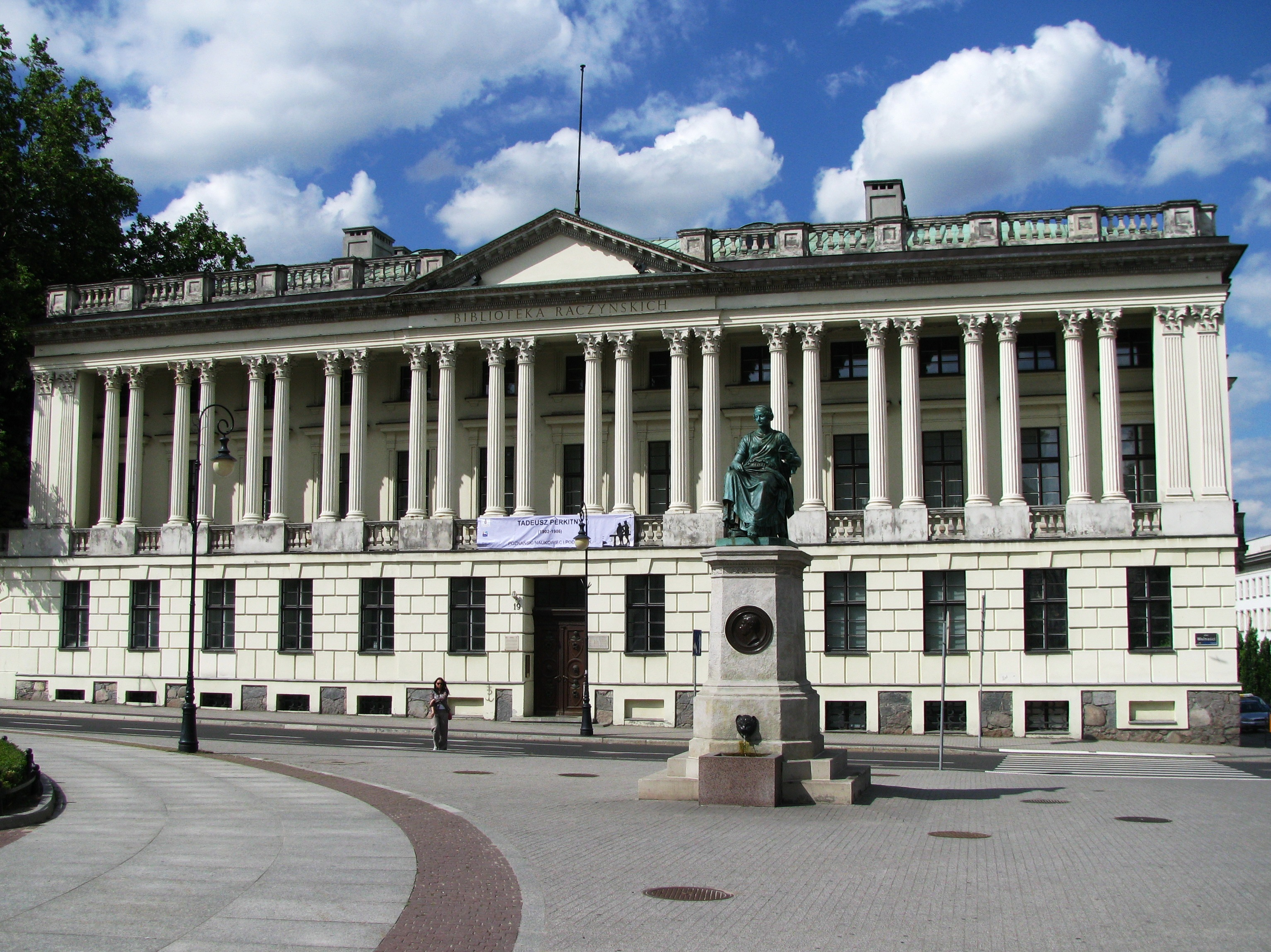 The Raczyński Library in Wolności Plac (Freedom Square) Poznań with statue of the Greek goddess of health, Hygeia, seated in front of the building. The Scotch Mist Gallery contains many photographs of historic buildings, monuments and memorials of Poland.